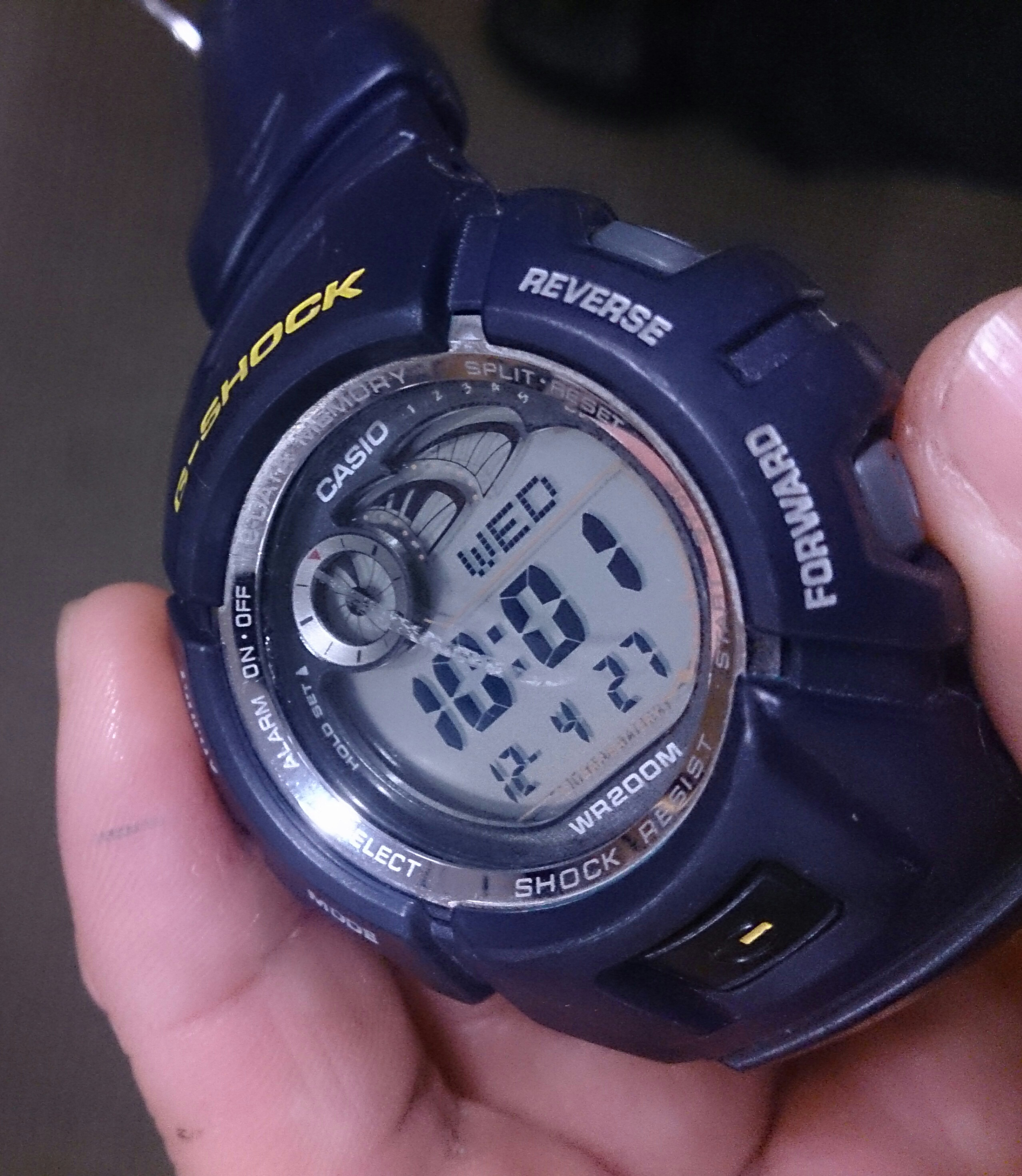 Model: G-2900